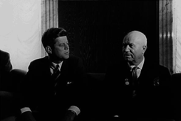 Description: John F. Kennedy and Nikita Khrushchev meeting in Vienna, Austria, 1961 Date: Vienna meeting, June 3, June 4, 1961 Source: National Archives and Records Administration, ARC Identifier: 193203 Creator: Look Magazine Photographer: Stanley Tretick Access Restrictions: Unrestricted Use Restrictions: Unrestricted